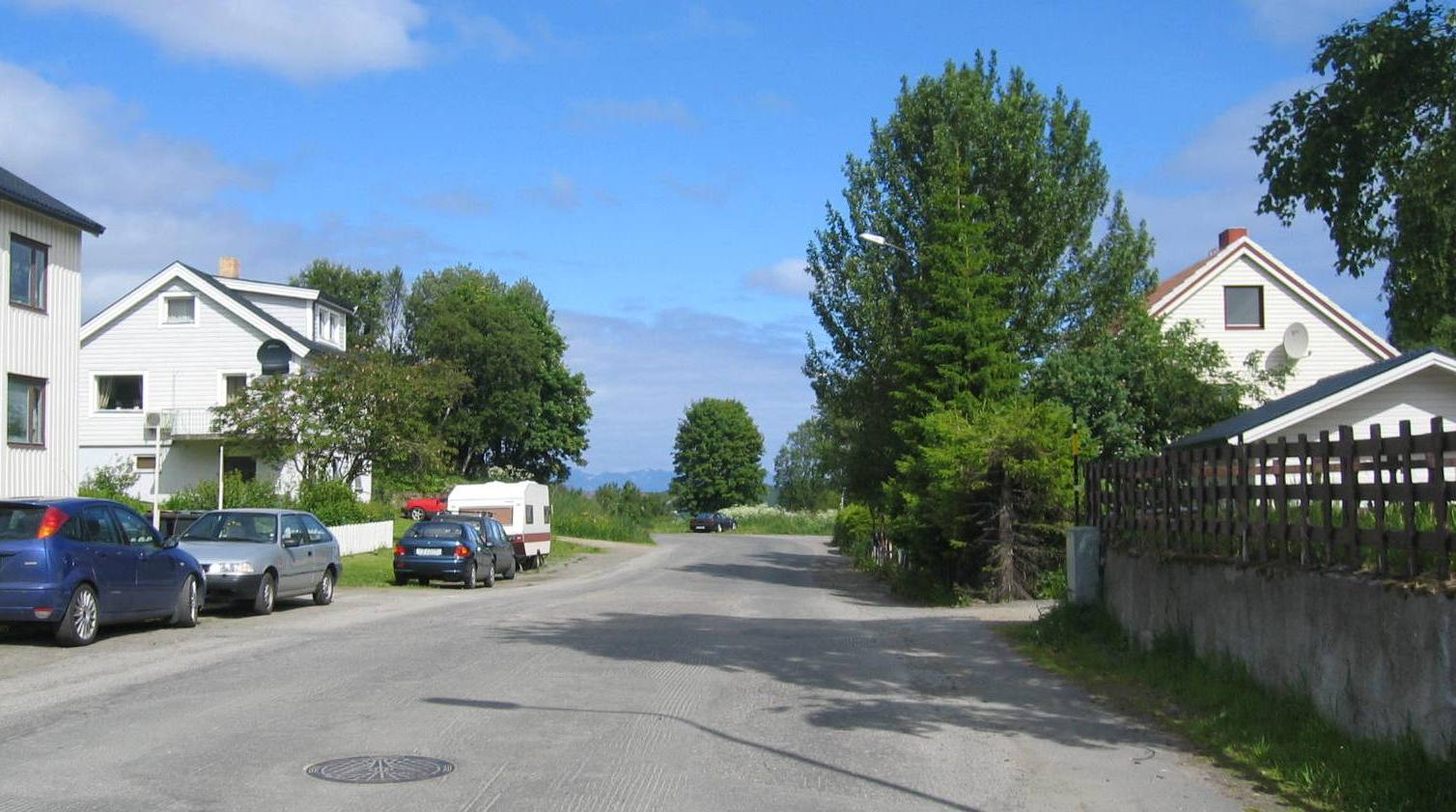 Eineberget, Harstad, Norway, seen in northward direction.